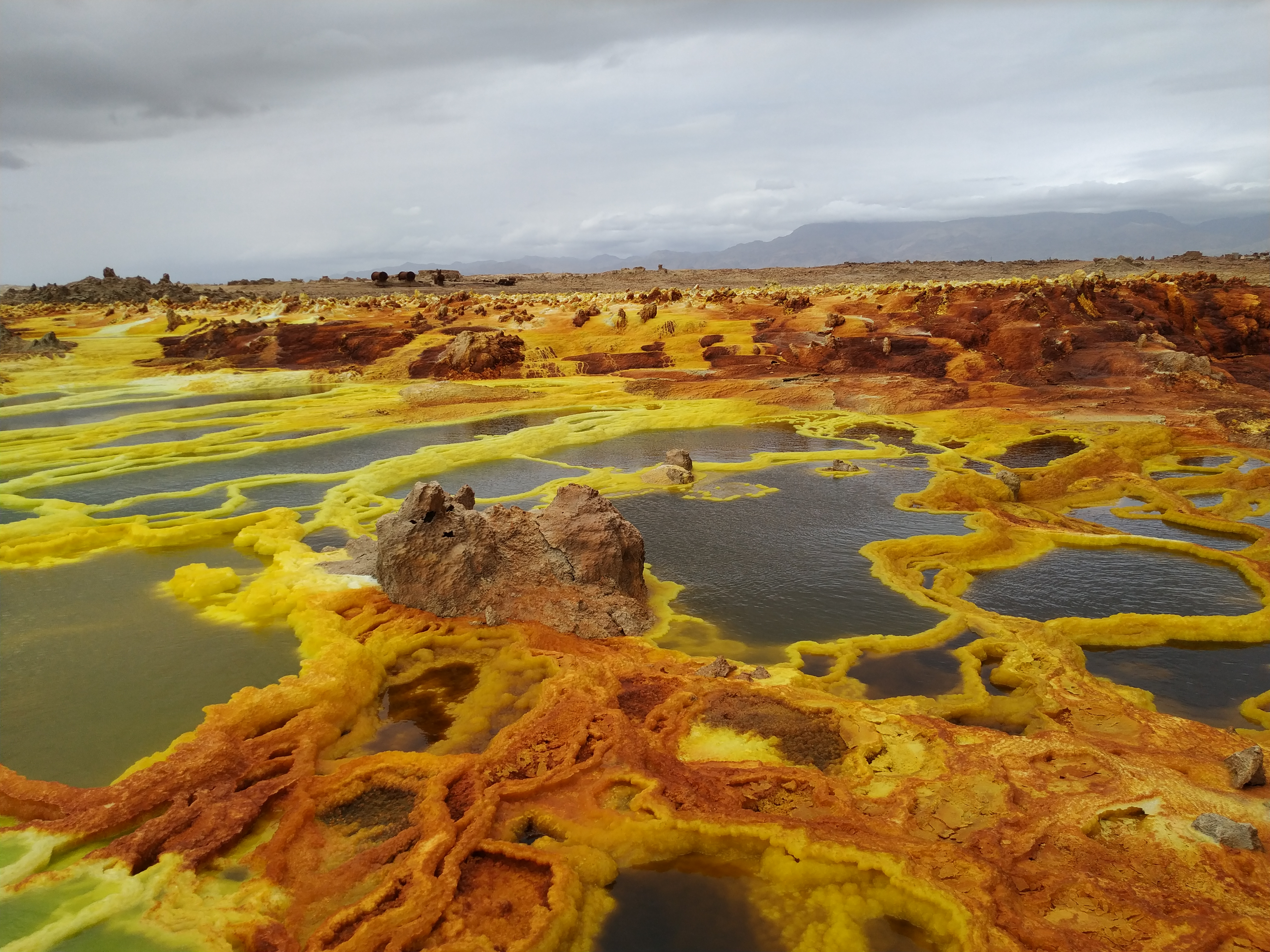 Natural beautiful disaster This is an image with the theme "Africa on the Move or Transport" from: Ethiopia